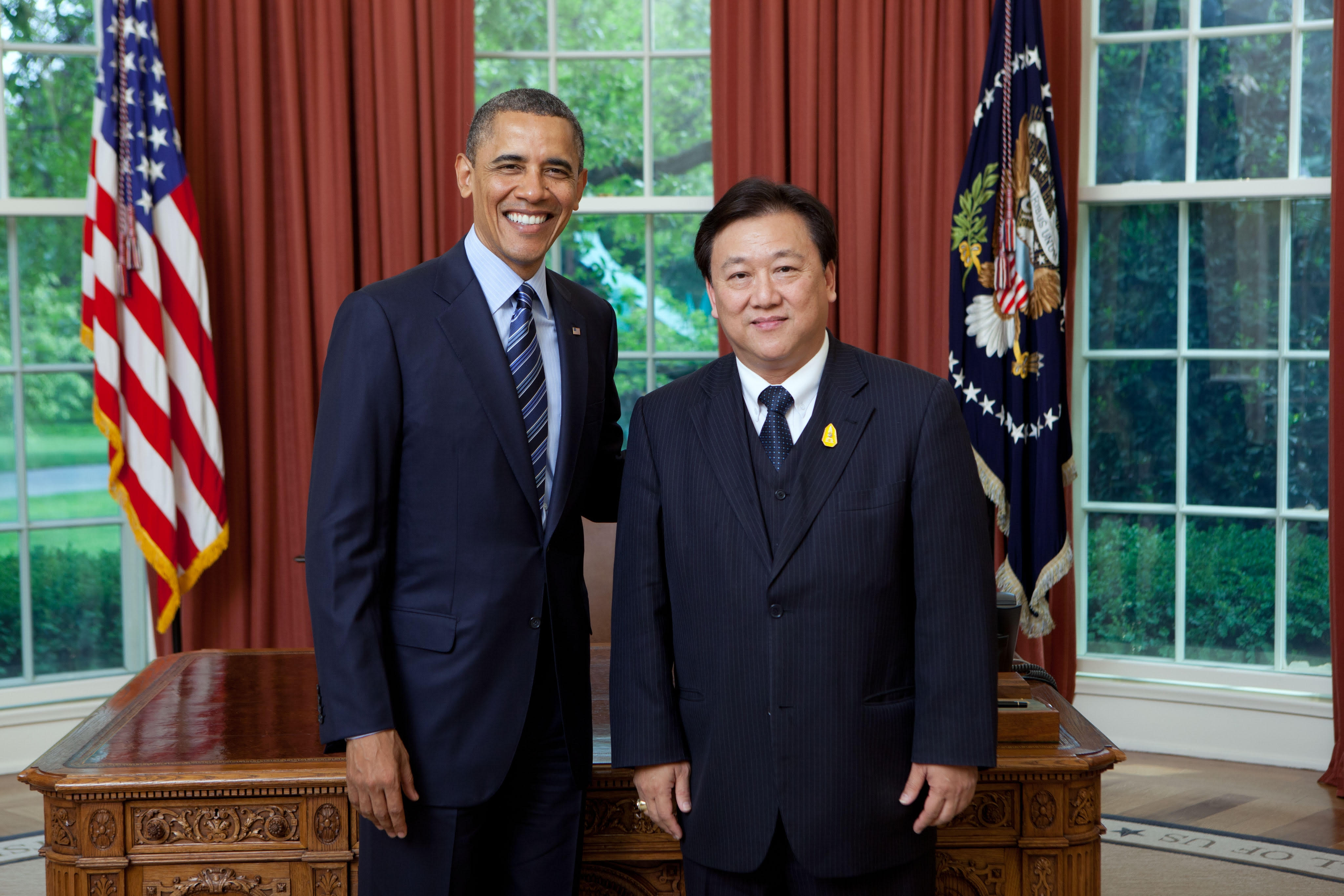 Dr Chaiyong and President Obama 2012